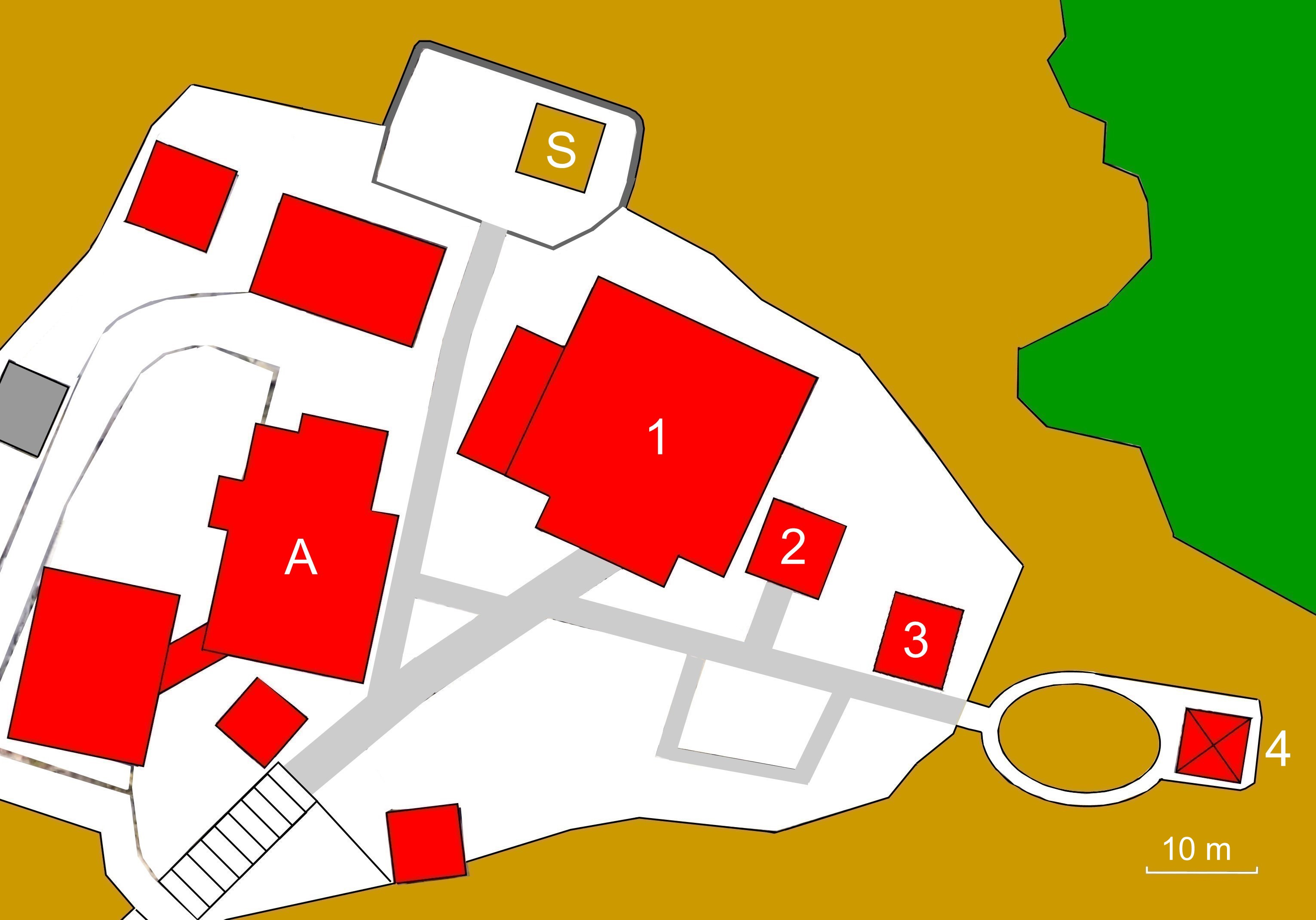 Layout of Mimuroto-ji, Uji, Japan (upper part)